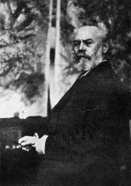 František Ženíšek, (1849-1916), was a Czech painter.